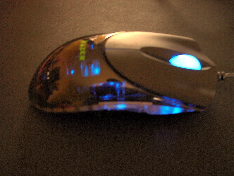 Razer Diamondback Plasma, a mouse